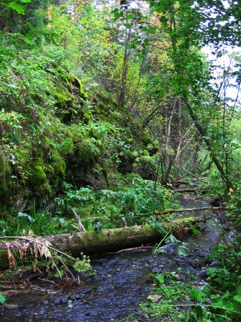 Creek in a forest in the Urals, Russia